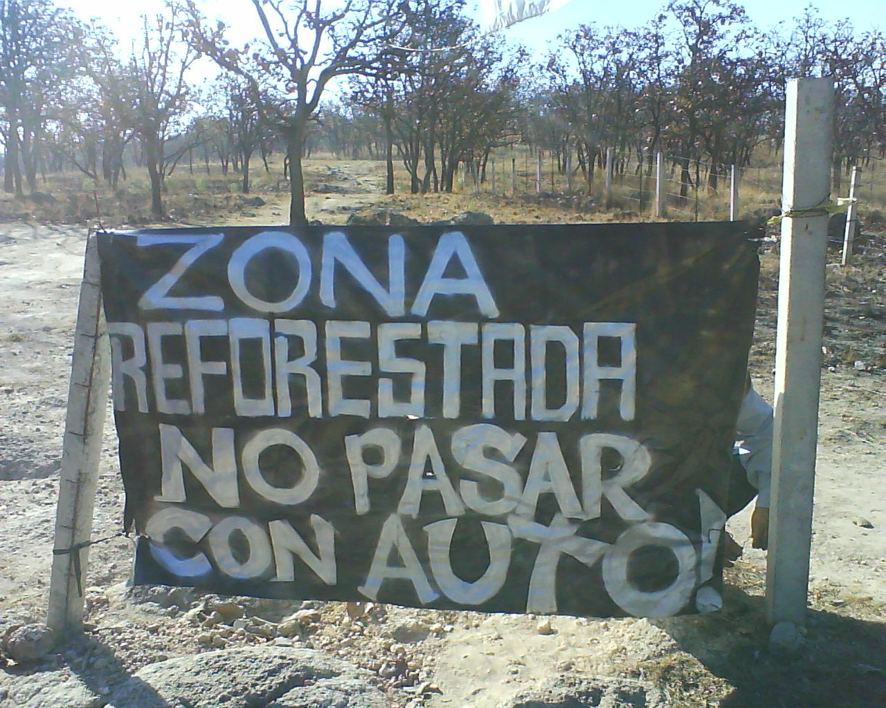 Restoration of hardwood nixticil forest, in the municipality of Guadalajara, in the state of Jalisco, Mexico; Here : oak trees (here defoliated in the dry season), and "inviting sign" not to circulate in this sector by motorized vehicle. Mexico is a signatory of the Bonn Challenge